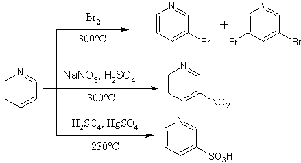 Pyridine electrophilic aromatic substitution.